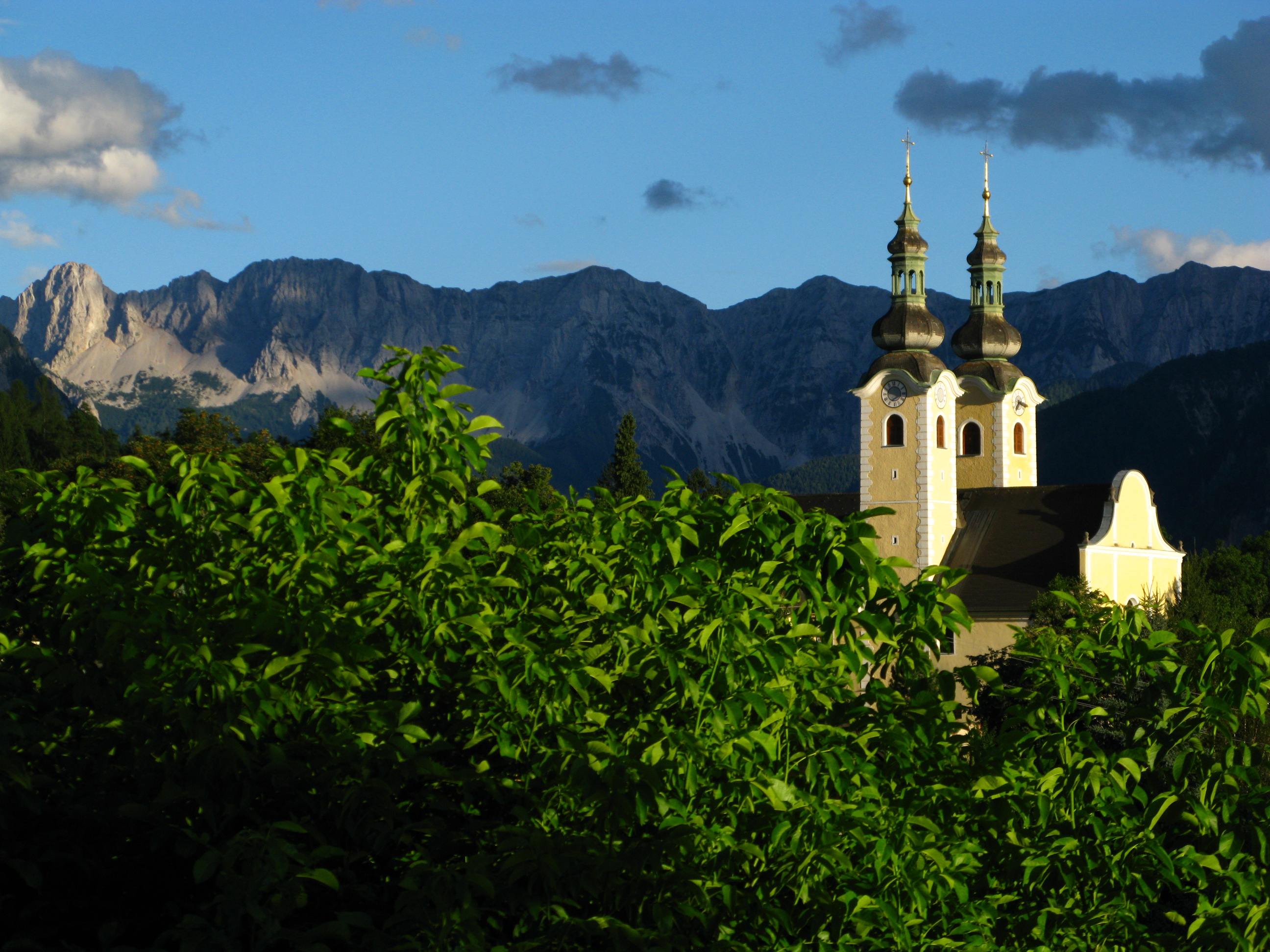 Maria Rain, district Klagenfurt-Land near Klagenfurt in Carinthia / Austria / European Union. View towards the south. In the background the Koschuta, part of the Karawanken mountain range. Brief description: walnut tree, catholic church, onion domes, towers, limestone formations, summer, sunset.